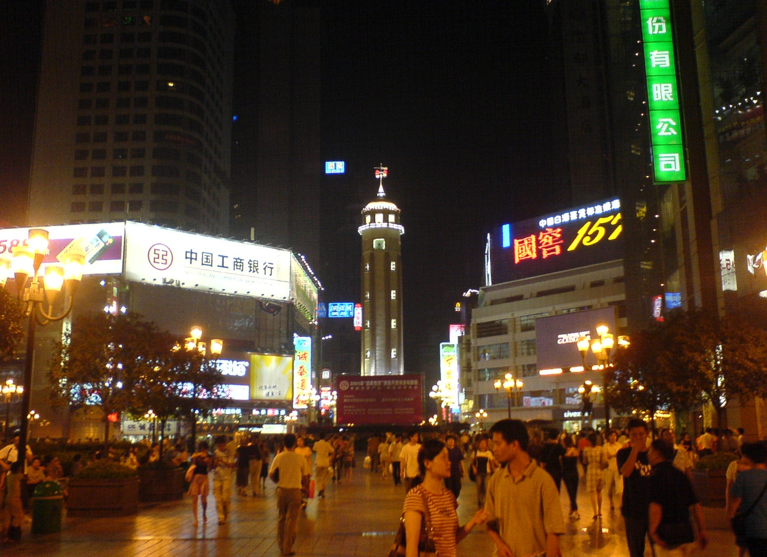 Land mark of Chongqing, People's Liberation Monument(Anti-Japanese War Victory Monument) in the city center area.